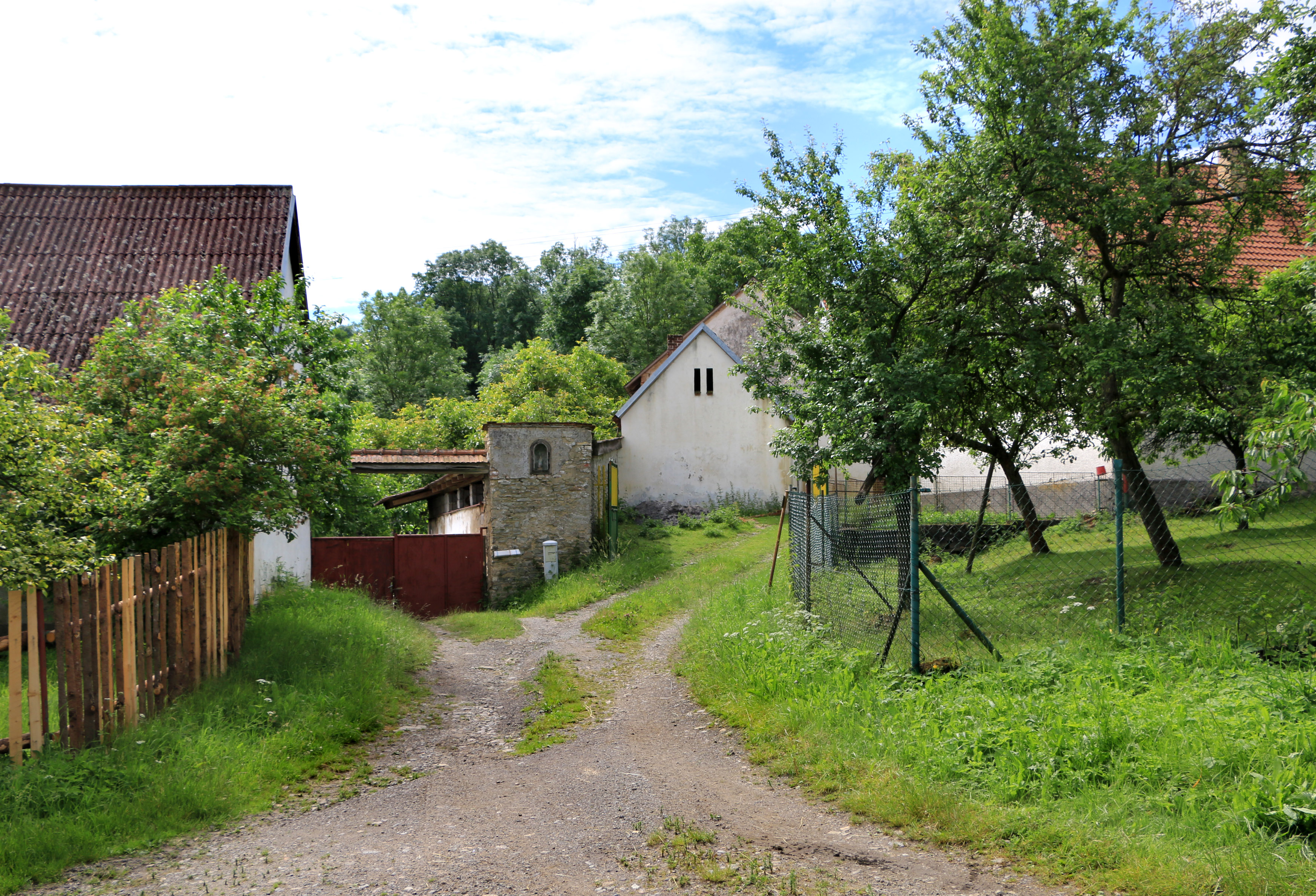 House No 2 in Zdeboř, part of Votice, Czech Republic.